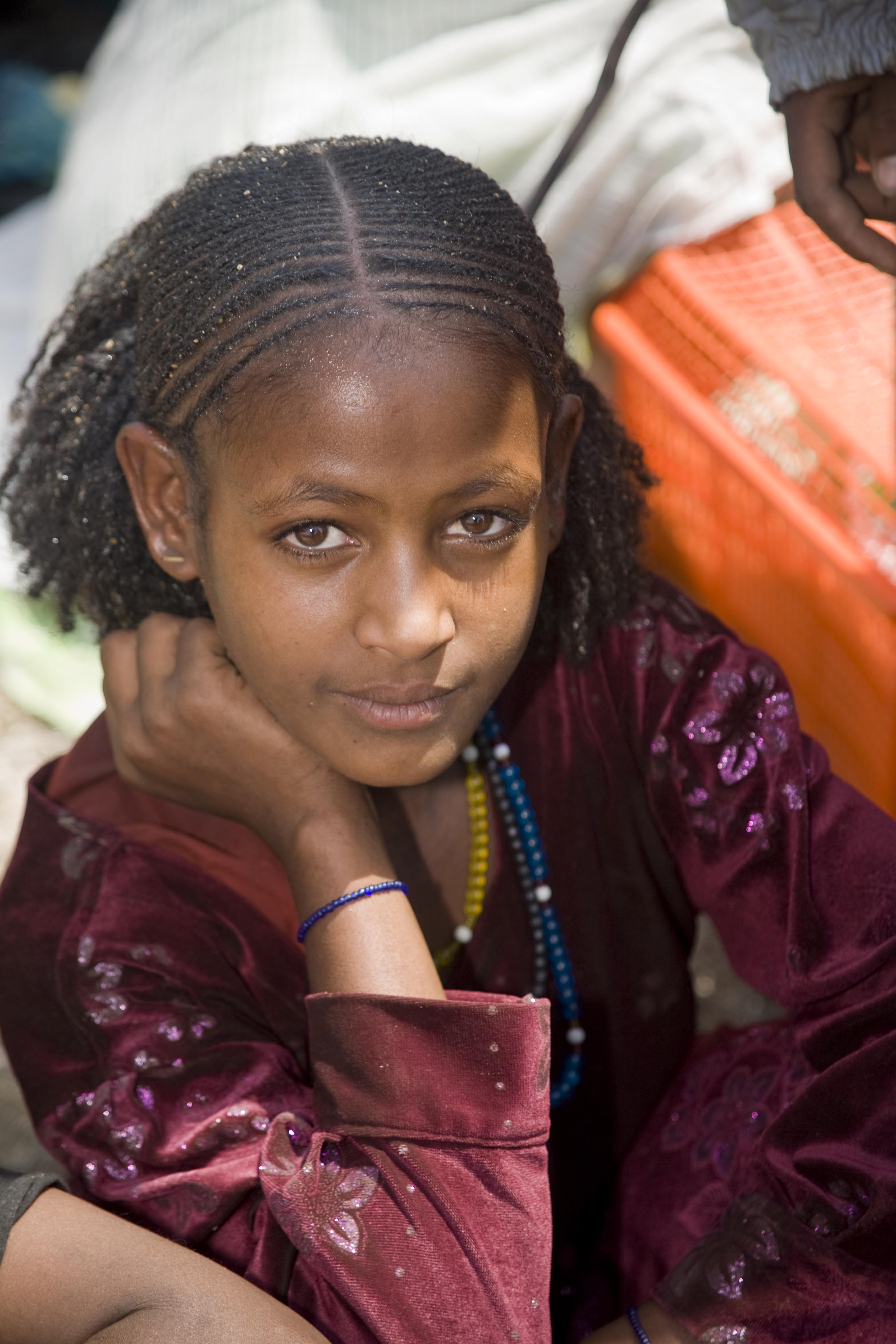 Argobba girl in Bati market located in the Oromia Zone of the Amhara Region.